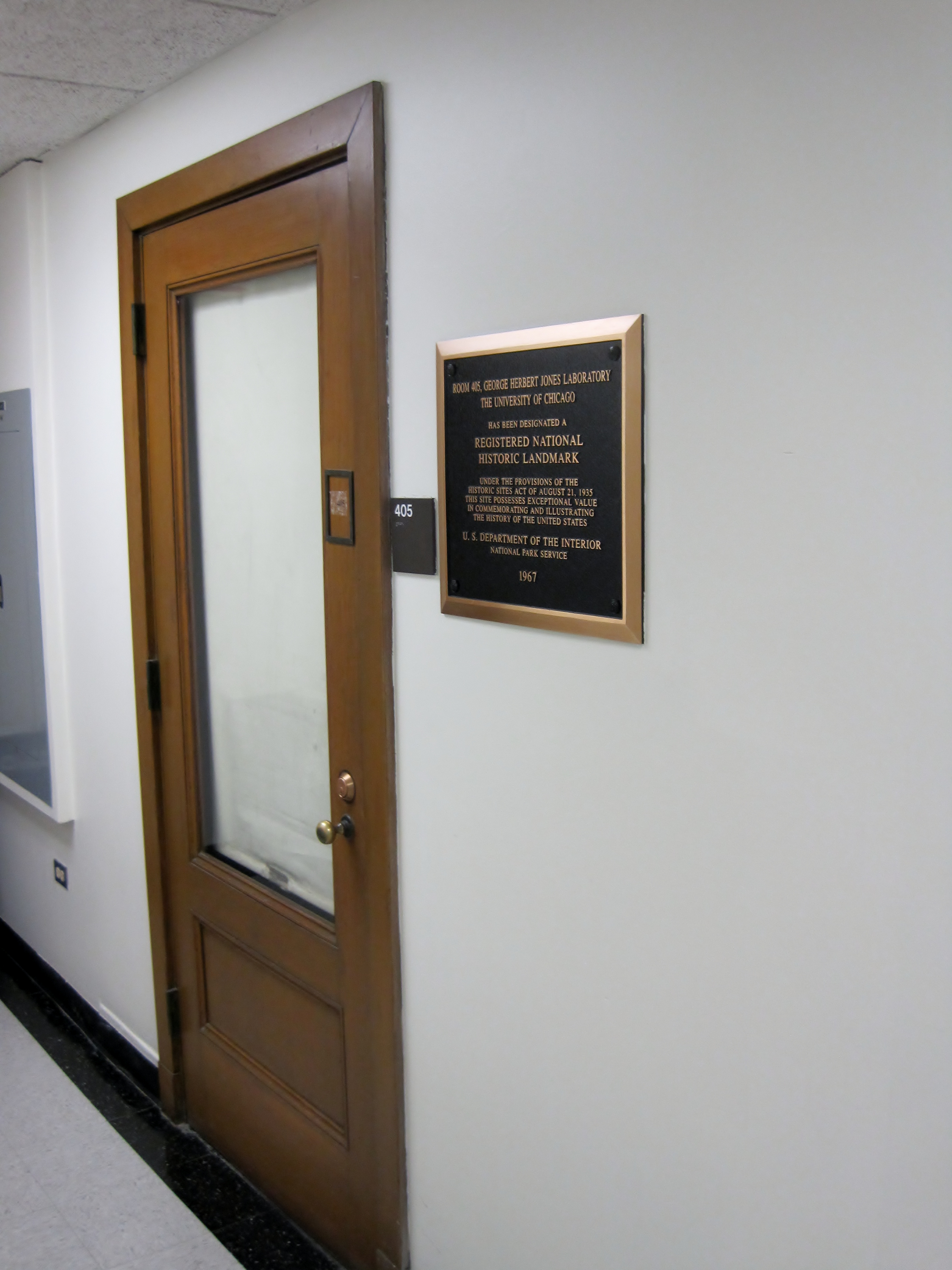 Room 405, George Herbert Jones Laboratory at the University of Chicago (1929). This is certainly one of the most unusual pictures to date, since only this one room is considered a national landmark. George Herbert Jones Laboratory was built in 1929 for the university's chemistry school. This room became famous during World War II due to the Manhattan Project. University chemists were instructed to study radioactivity under Arthur Compton, specifically the recently manufactured element plutonium. In September 1942, the first plutonium was isolated and measured, allowing the scientists to determine its atomic weight.